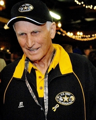 Coaches Bill Yoast (center) and Herman Boone (right) tell Karen McGuiness the history of their participation during a special barbecue designed to honor both Soldier-heroes and players. The two coaches were highlighted in the movie "Remember the Titans."